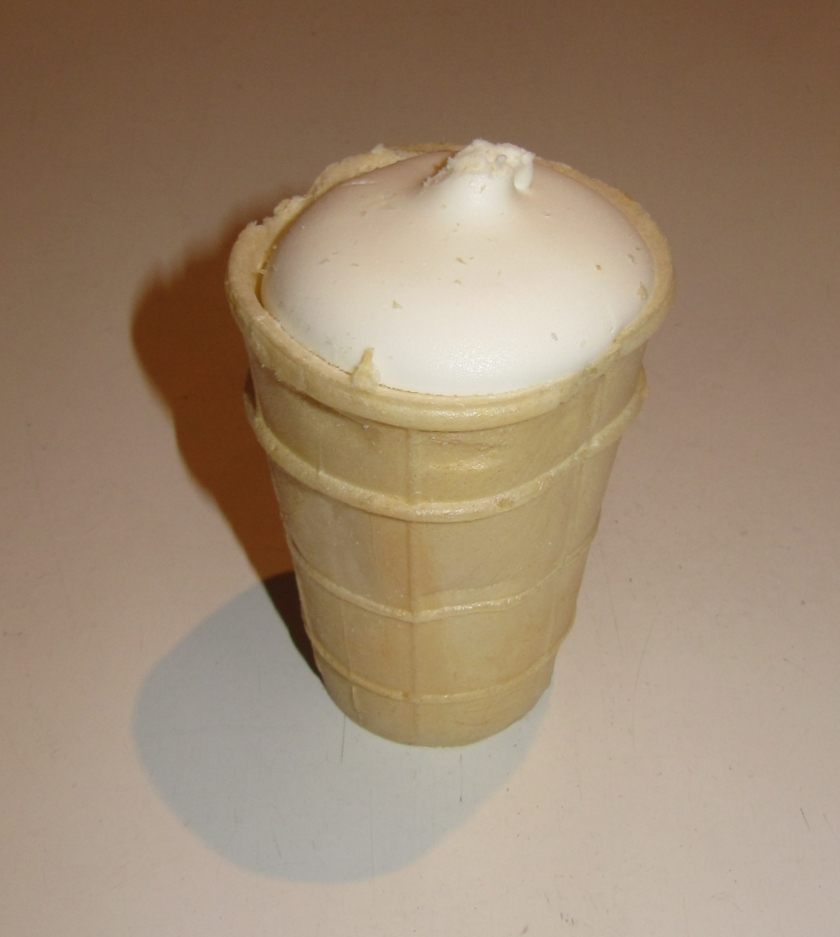 Plombir (in der Waffel, industriell hergestellt)